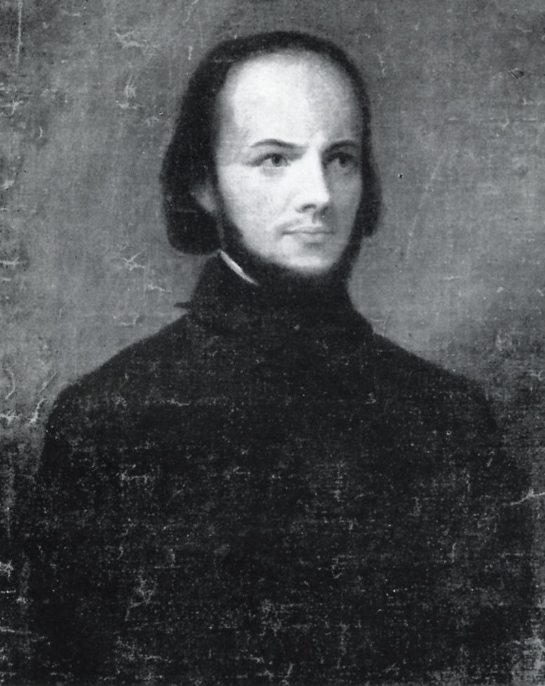 Portrait of a young Rufus Wilmot Griswold, presumed to be age 25.